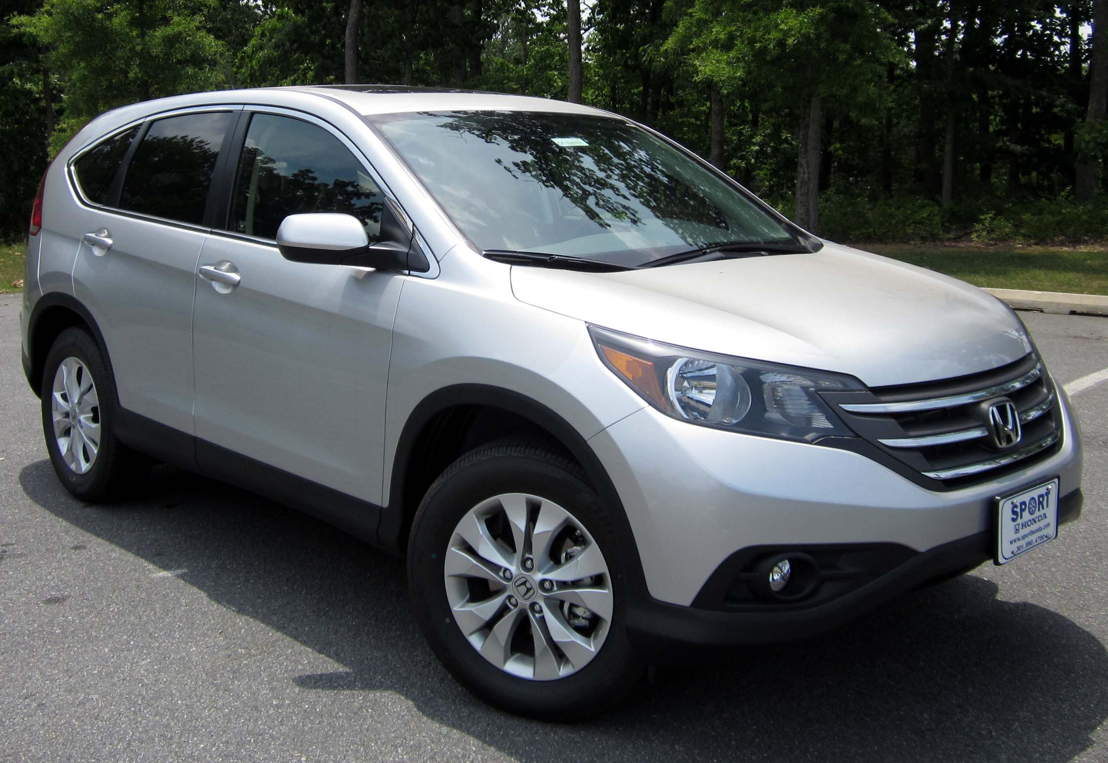 2012 Honda CR-V photographed in Silver Spring, Maryland, USA.